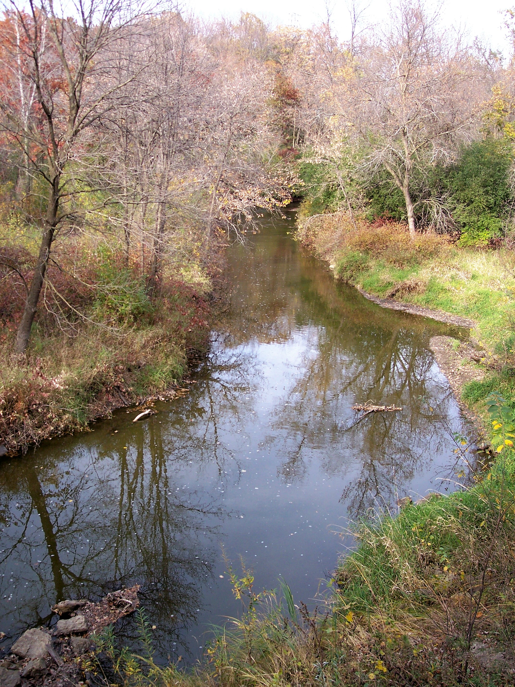 Rice Creek (Minnesota) as viewed from the Rice Creek West Regional Trail in Fridley, Minnesota